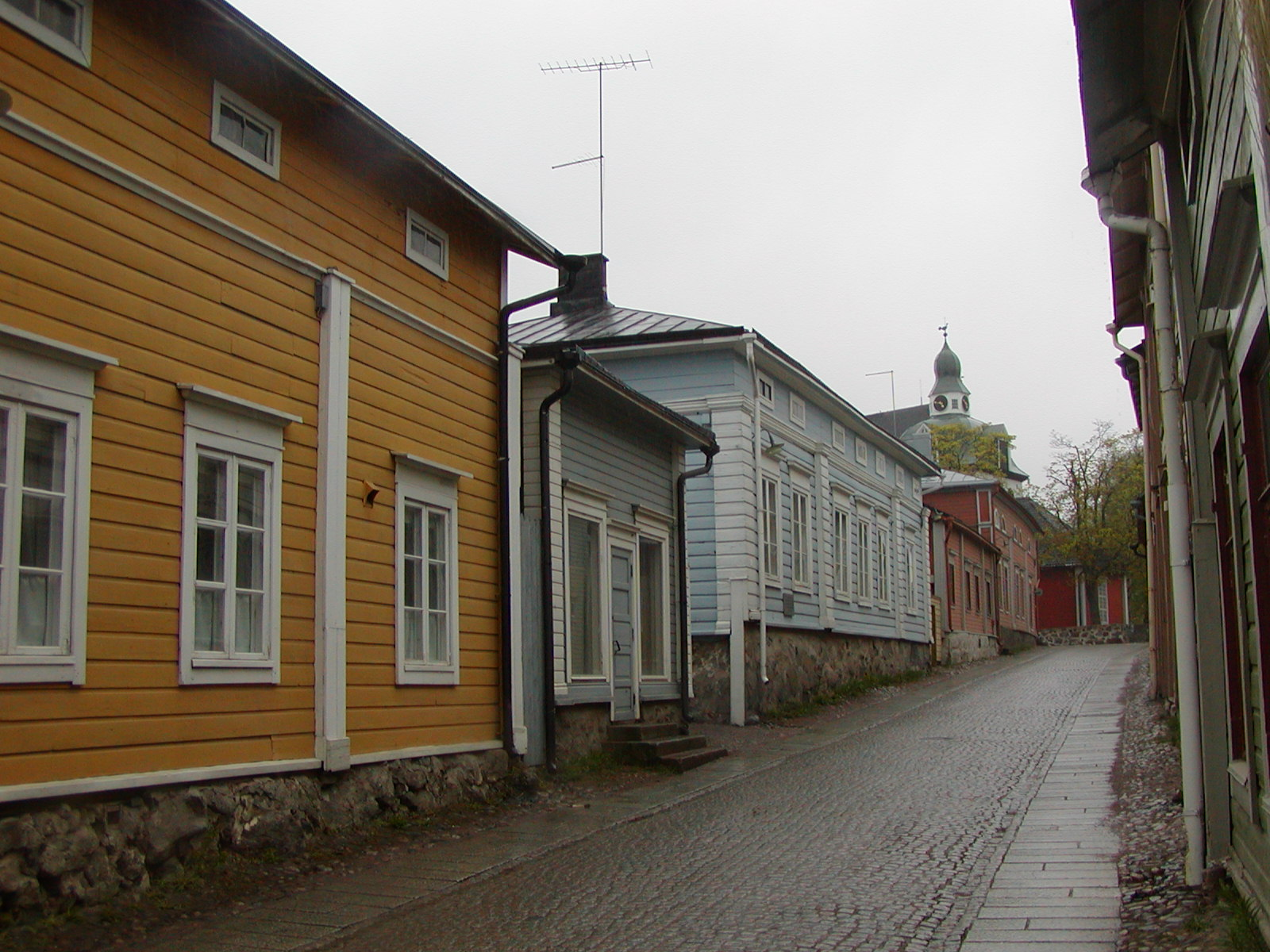 Porvoo Cathedral in Porvoo, Finland, one week before the fire on 29 May 2006